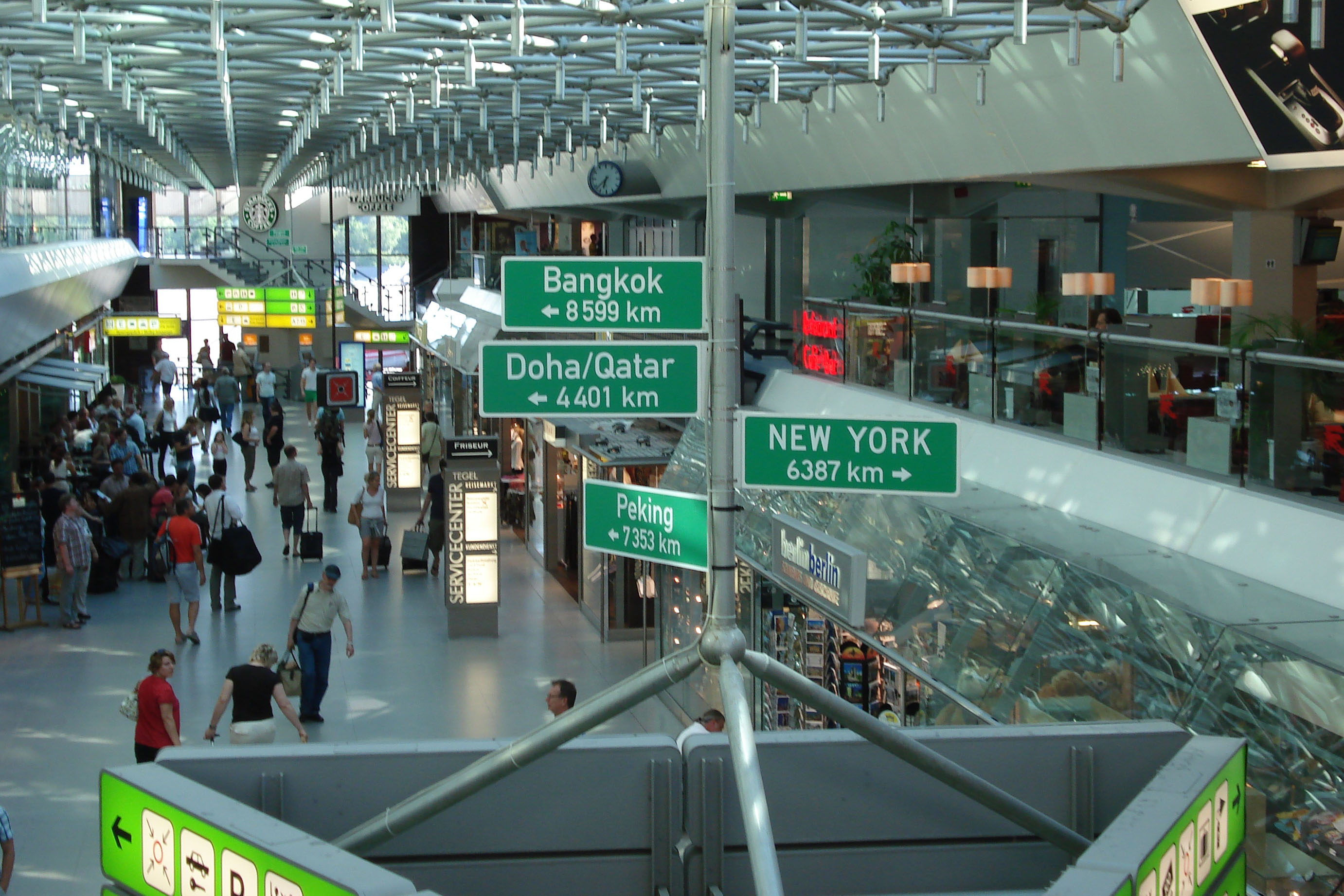 Direction signs at airport Tegel, Terminal A